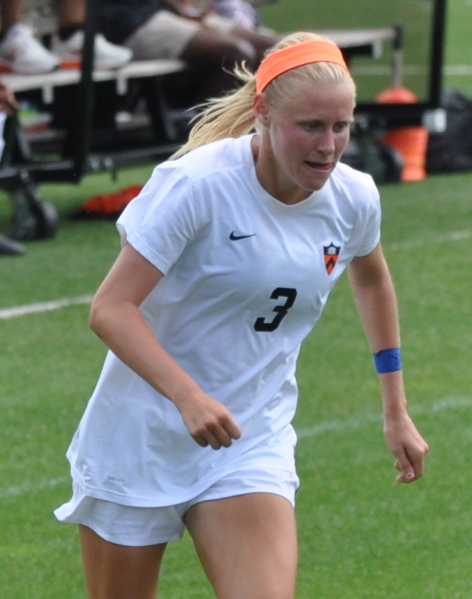 This .jpg file is a photo of Lauren Lazo playing soccer for the Princeton Tigers in 2013. Lazo is playing in a collegiate game against West Point in this photo.